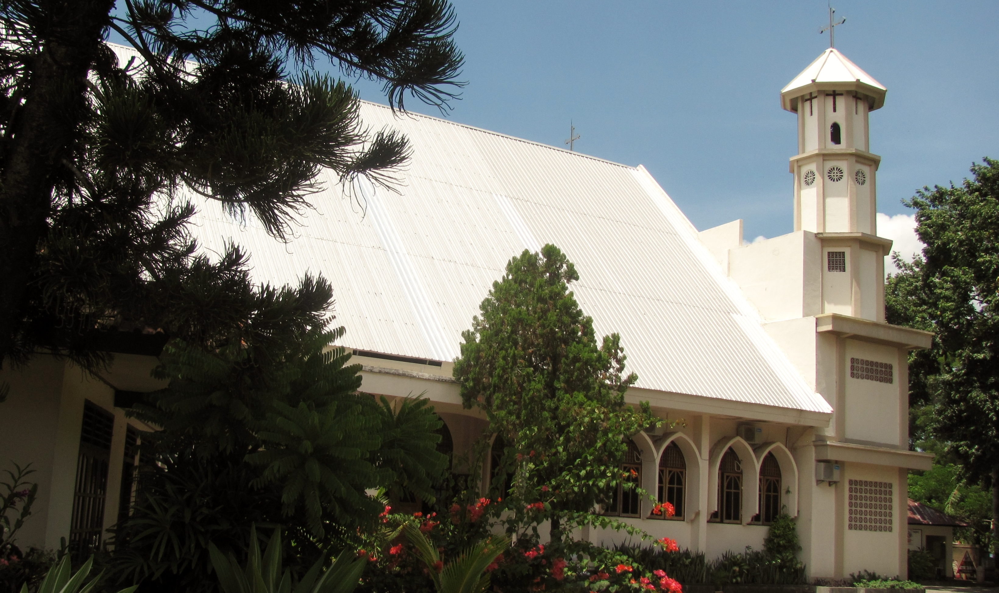 Catholic Church Santo Antonius Padua in Ampenan, Lombok, Indonesia